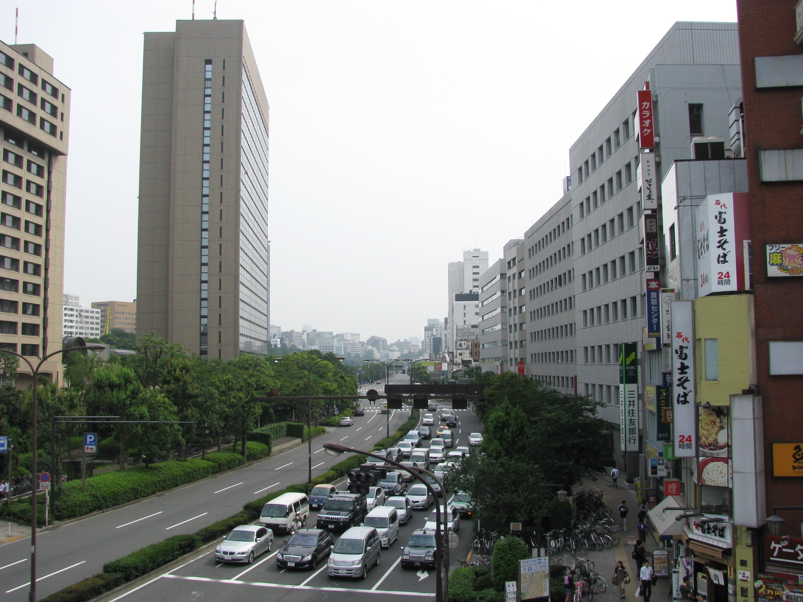 The Tokyo Prefectural Route 405. This location is Agebachō in Shinjuku, Tokyo, Japan.